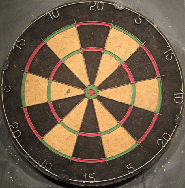 What's odd about this dartboard?